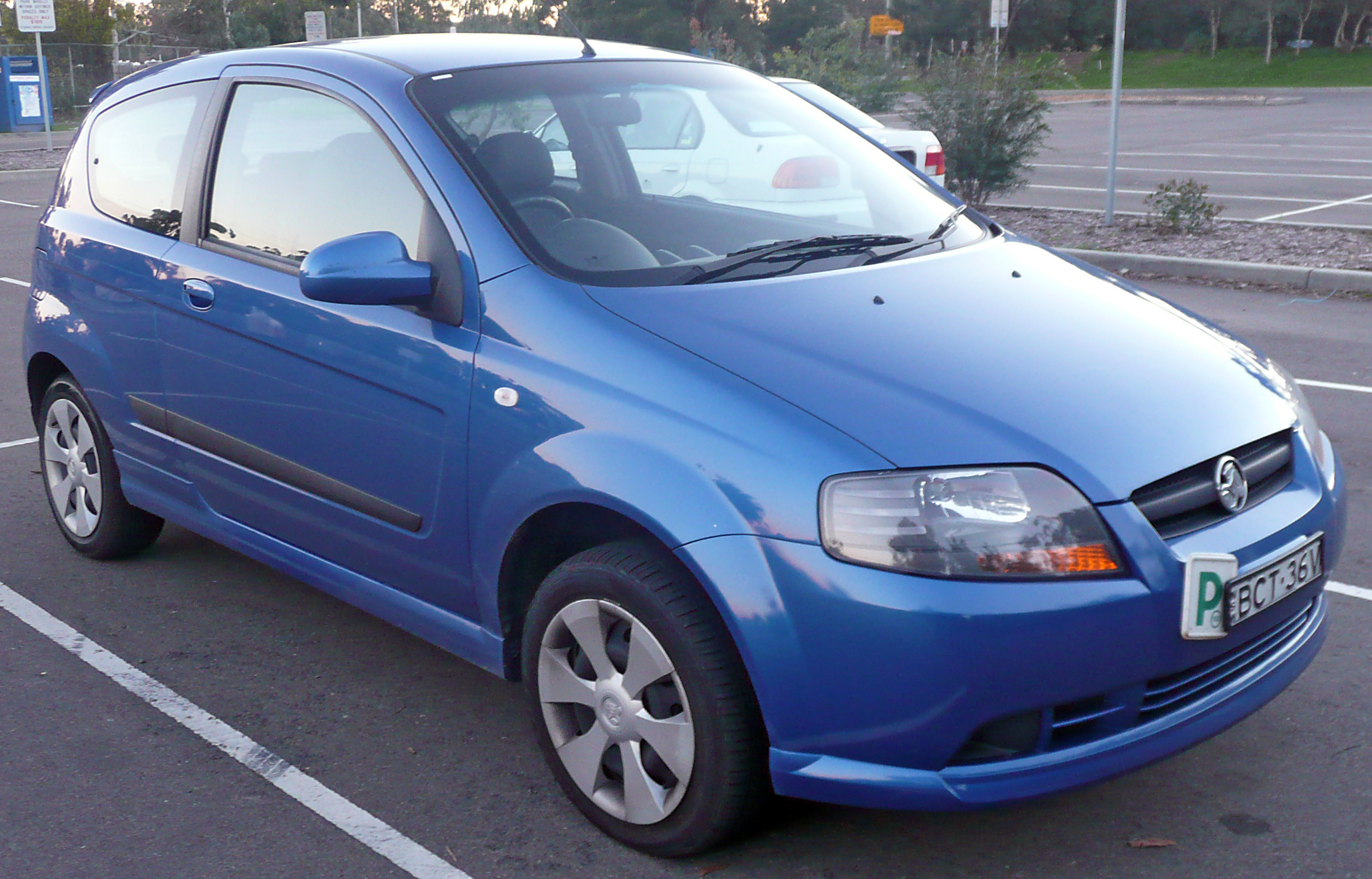 2007 Holden Barina (TK) 3-door hatchback. Photographed in Kirrawee, New South Wales, Australia.